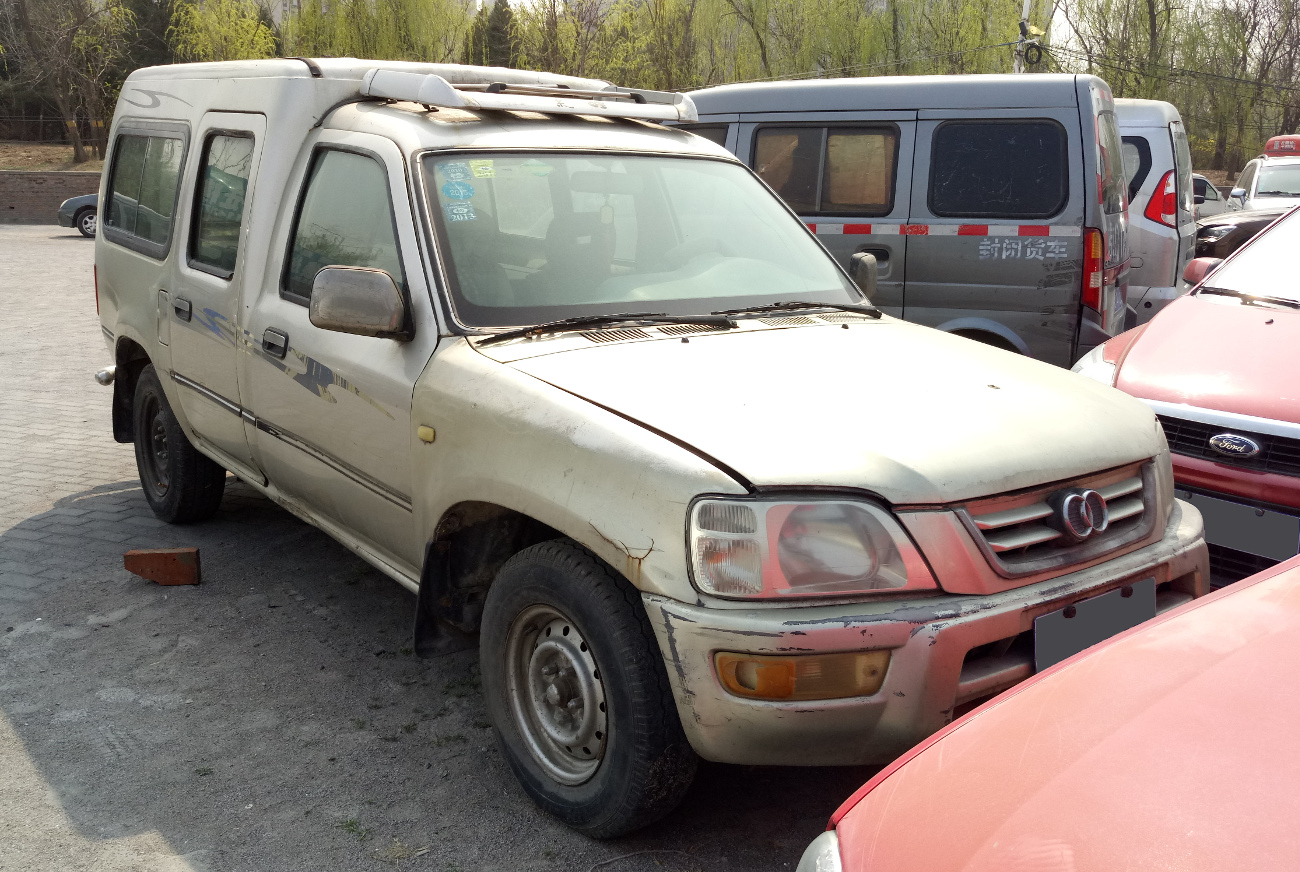 Shuanghuan HBJ6460 MPV photographed in Beijing, China.